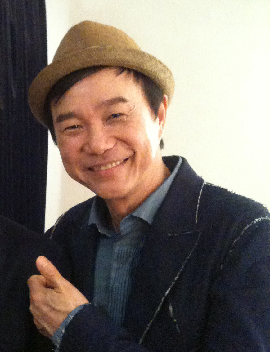 Albert Au is in Kowloonbay International Trade & Exhibition Centre